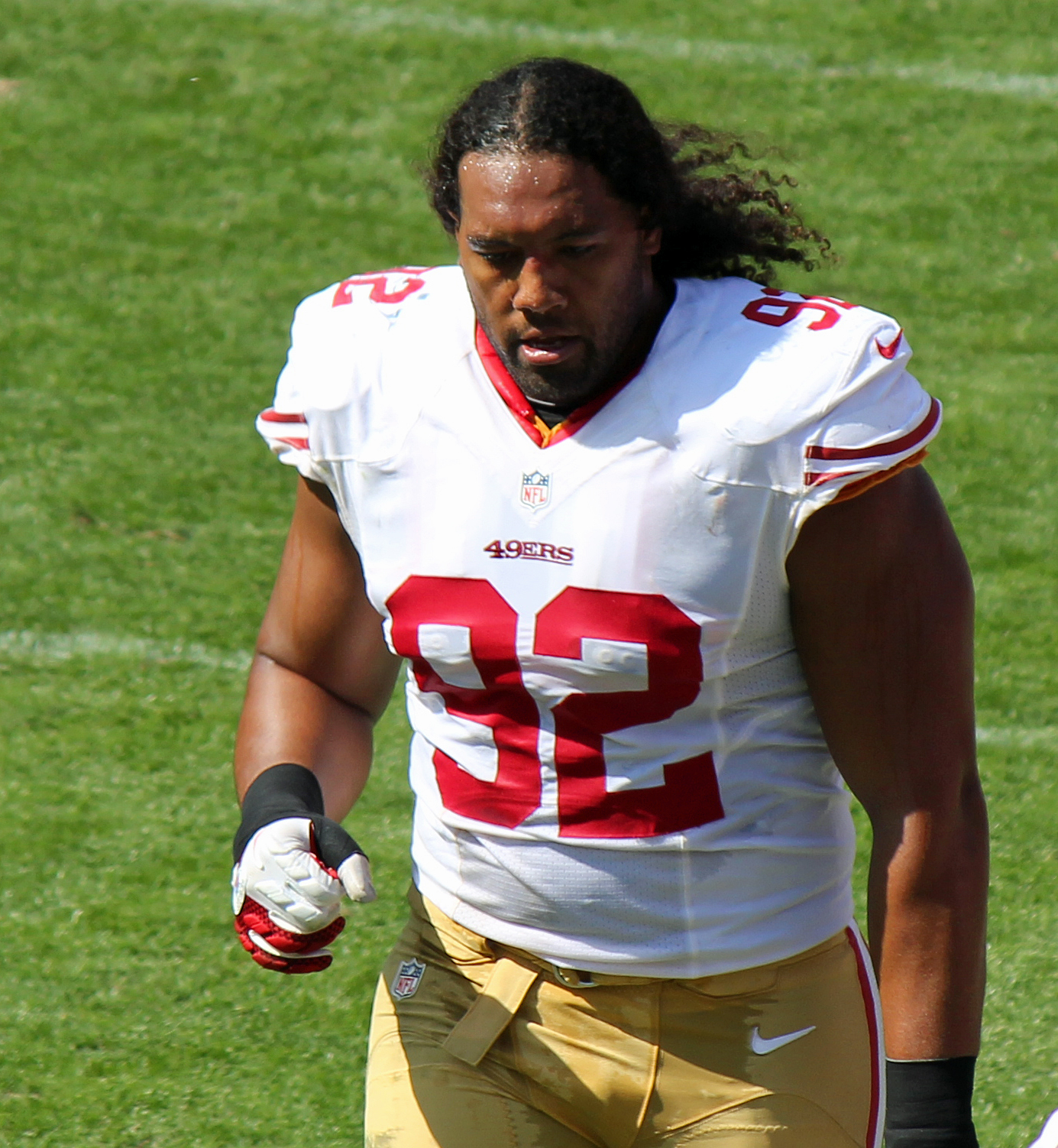 Will Tukuafu, a player on the National Football League.